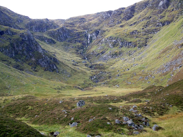 The Corrie of Fee The corrie is one of the most important sites for arctic-alpine plants in Britain. Many of the plants found here are so rare that they are only found at a handful of locations in the UK.